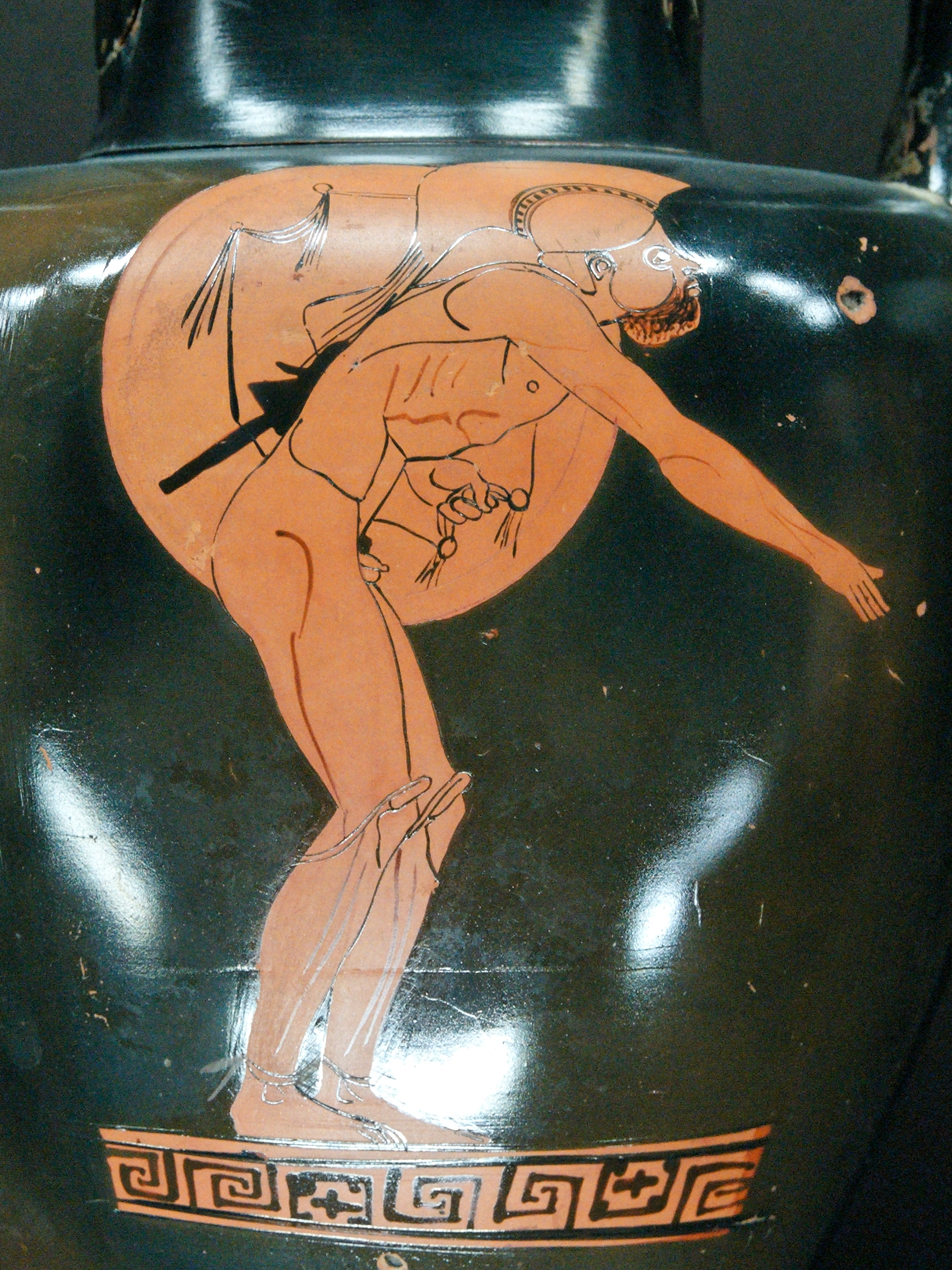 Hoplitodromia (race in armour). Side A from an Attic red-figured neck-amphora, ca. 480–470 BC.